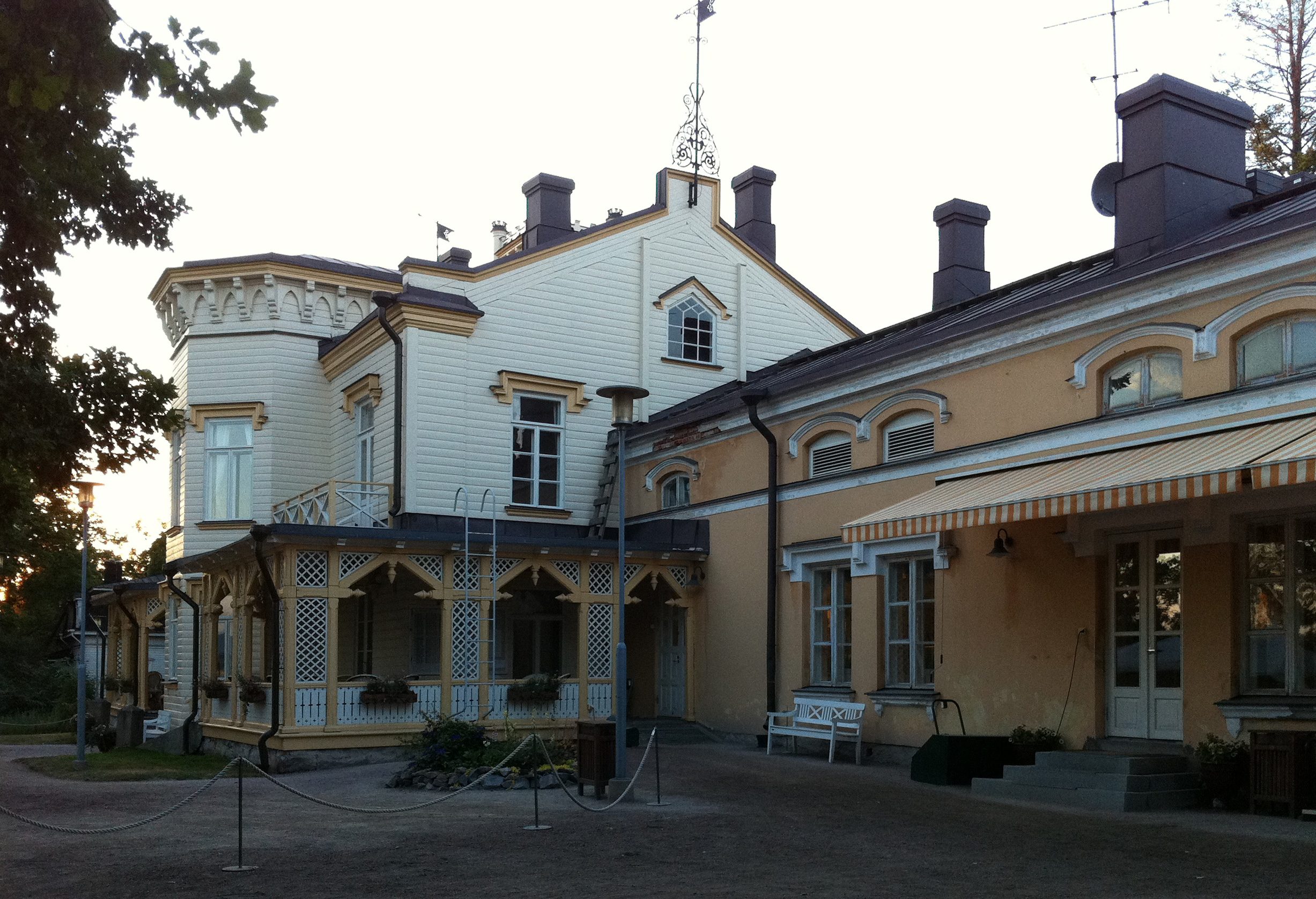 Tali Manor, Helsinki